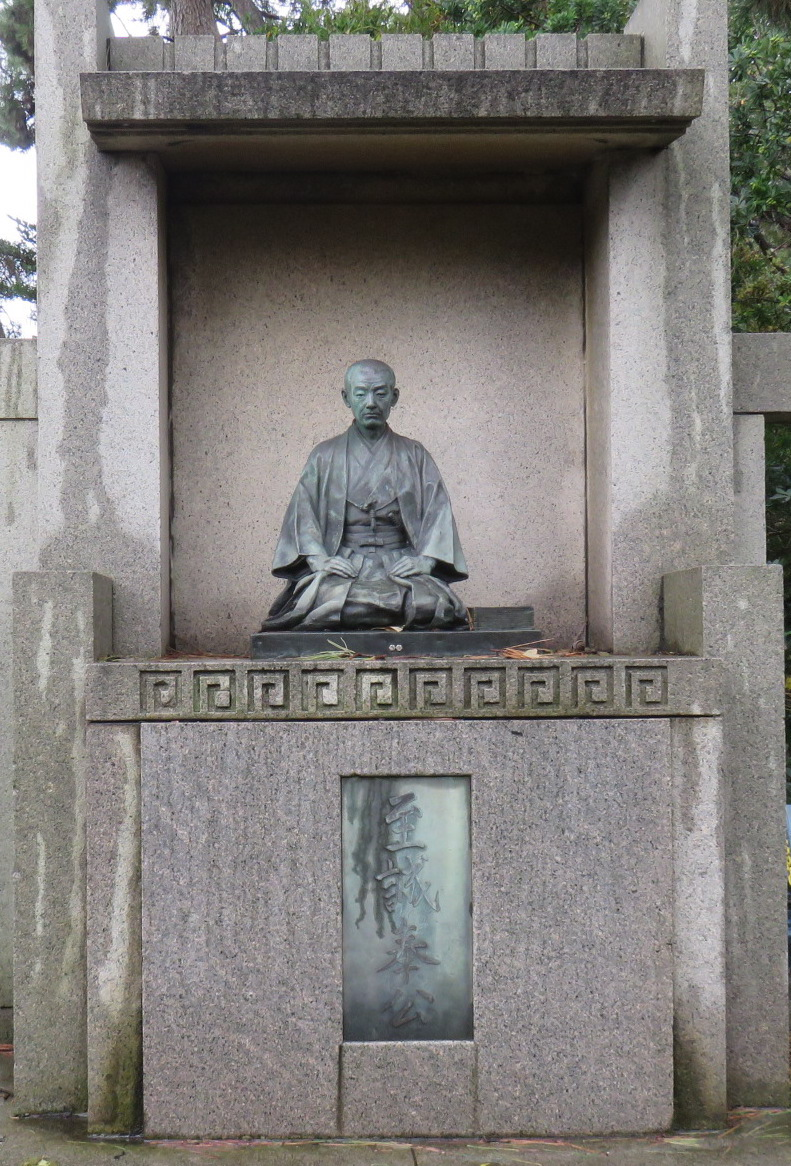 The Takeuchi-style statue is located in Nishifunami-cho, Chuo-ku, Niigata-shi